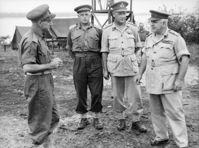 Wewak Area, New Guinea, 1945-06-14. General Sir Thomas A. Blamey, Commander-In-Chief, Allied Land Forces, South West Pacific Area (4). With Senior Officers During His Visit To HQ 6 Division. Identified Personnel Are:- Maj-Gen J.E.S. Stevens, GOC 6 Division (1); Lt-Col L.N. Tribolet, Commanding Officer 6 Division Signals (2); Maj-Gen C.H. Simpson, Chief Signal Officer (3).